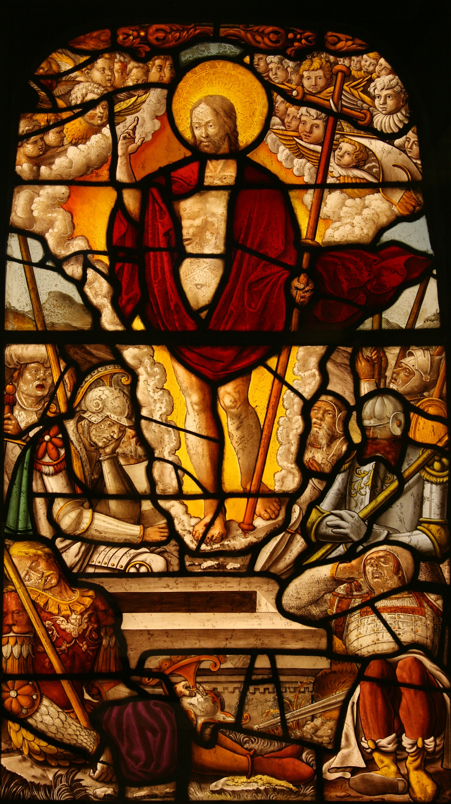 Exhibited at the room 27 (Northern Renaissance 1500-1700, case EXP), Victoria and Albert Museum, London, England. It was originally in the cloisters of Steinfeld Abbey, near Cologne. German (Cologne), about 1540-1542